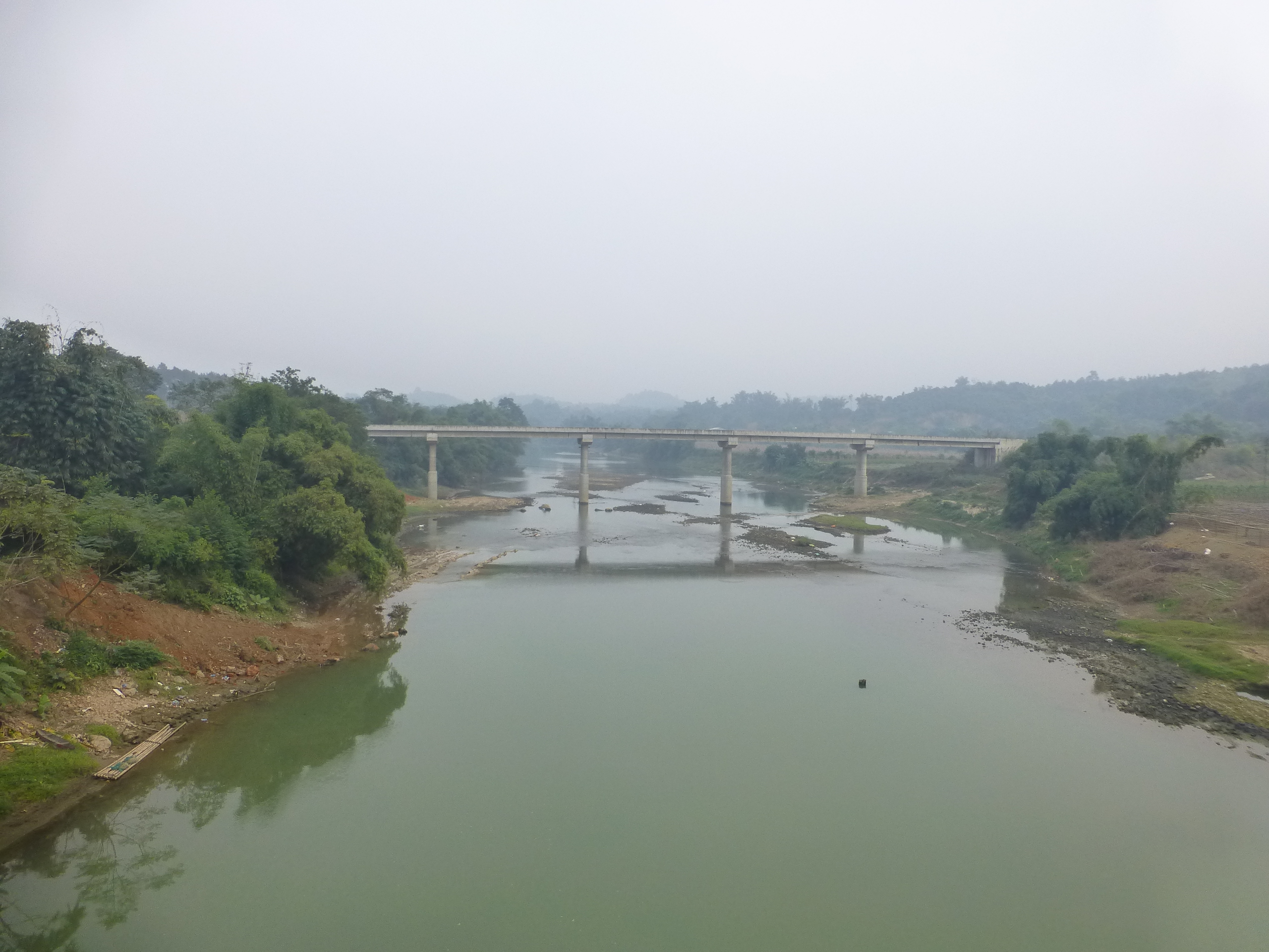 A new bridge over the Bo River, seen from the combined road-rail bridge on QL4E located a short distance upstream (in Gia Phú, Bao Thang District, Lao Cai Province). (This is not the bridge on CT05, as that would be quite a distance to the west, and would be as clearly seen from the combined bridge).